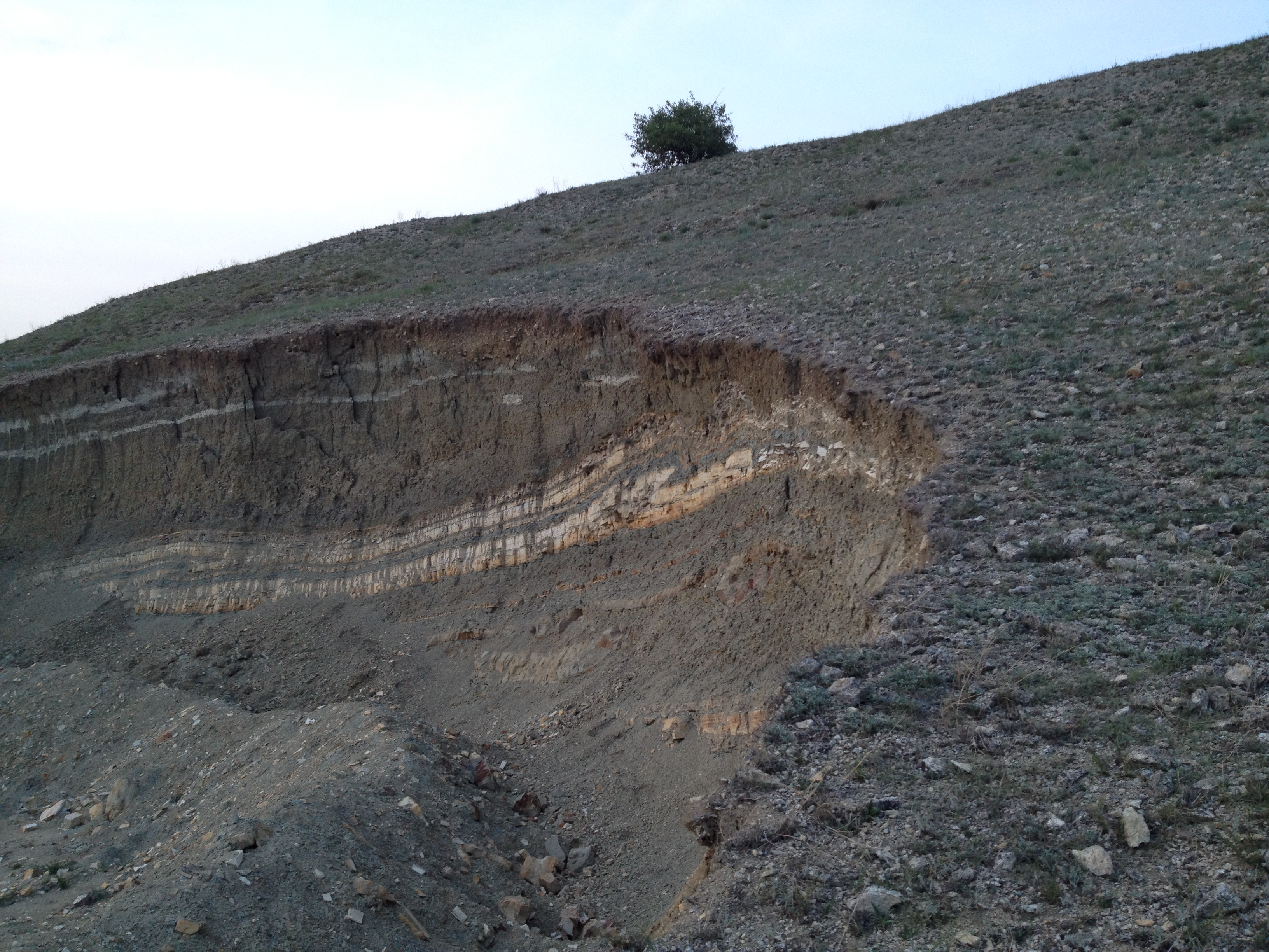 Salvia jurisicii sites are often exploited for resources in construction projects.